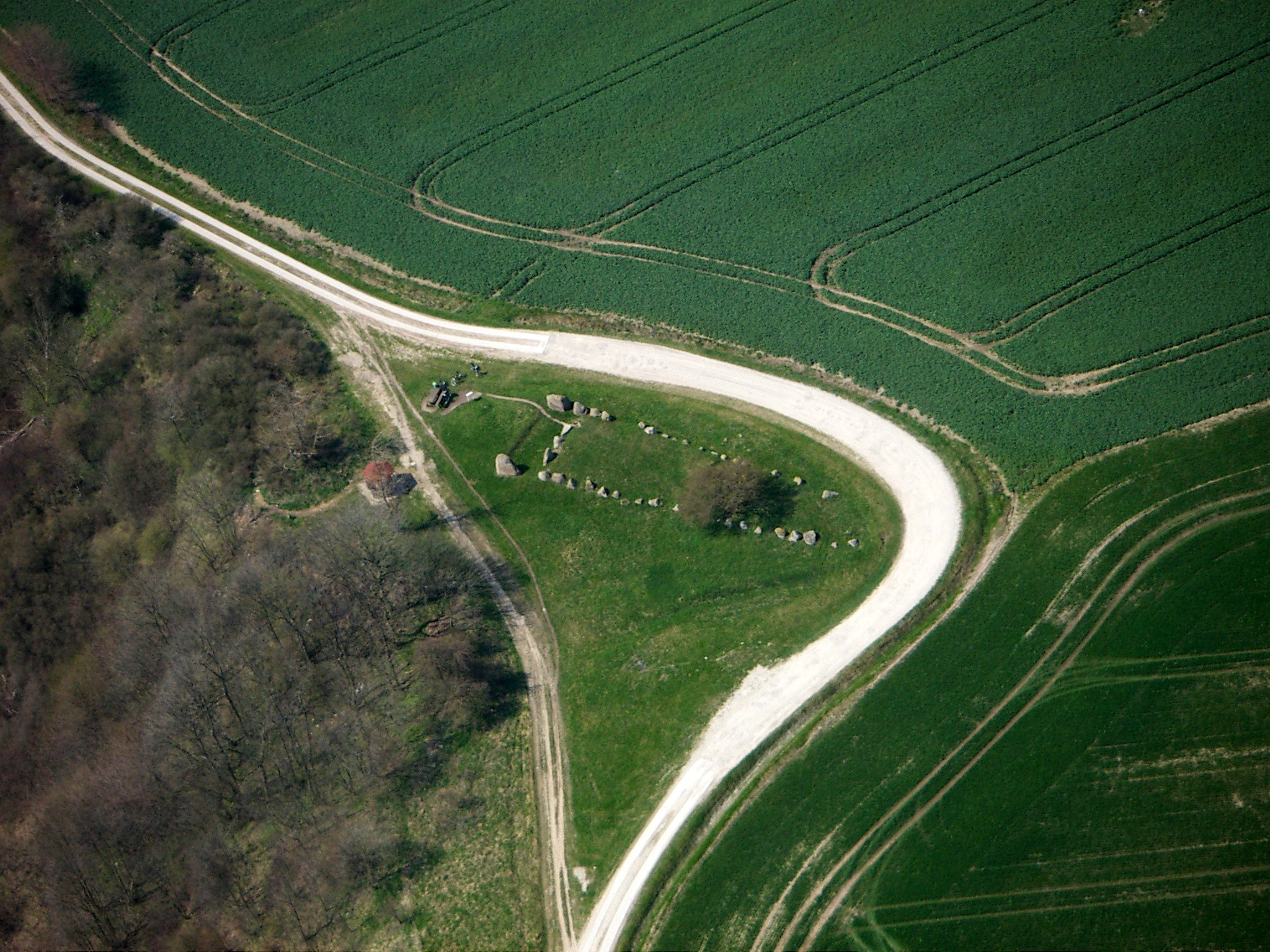 Long barrow near Nobbin/Rügen, Nortern Germany